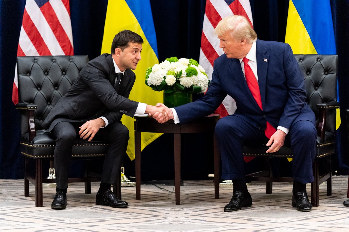 President Donald J. Trump participates in a bilateral meeting with Ukraine President Volodymyr Zalensky Wednesday, Sept. 25, 2019, at the InterContinental New York Barclay in New York City. (Official White House Photo by Shealah Craighead)